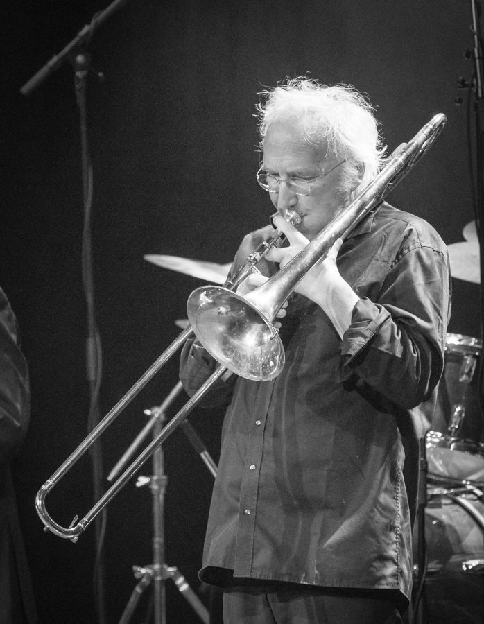 Helge Førde with James Morrisson and Brazz Brothers at Chat Noir. The concert was part of Oslo Jazzfestival and took place on 19. August 2017 in Oslo. Lineup: James Morrisson (trumpet), Helge Førde (trombone), Jan Magne Førde (trumpet), Runar Tafjord (horn), Stein Erik Tafjord (tuba), Kenneth Ekornes (drums) and Kåre Nymark jr (trumpet).